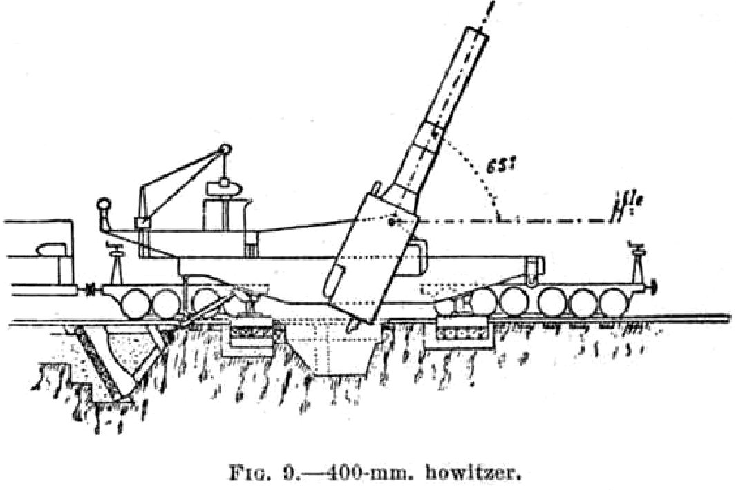 Diagram showing French 400 mm railway howitzer elevated in firing position, World war I era. See also File:French 400 mm railway howitzer anchor diagram.jpeg